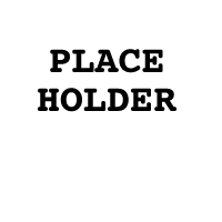 This is an image placeholder I made for use in an article I'm creating in my user space. I don't have an image just yet but want a general idea of what the page will look like.